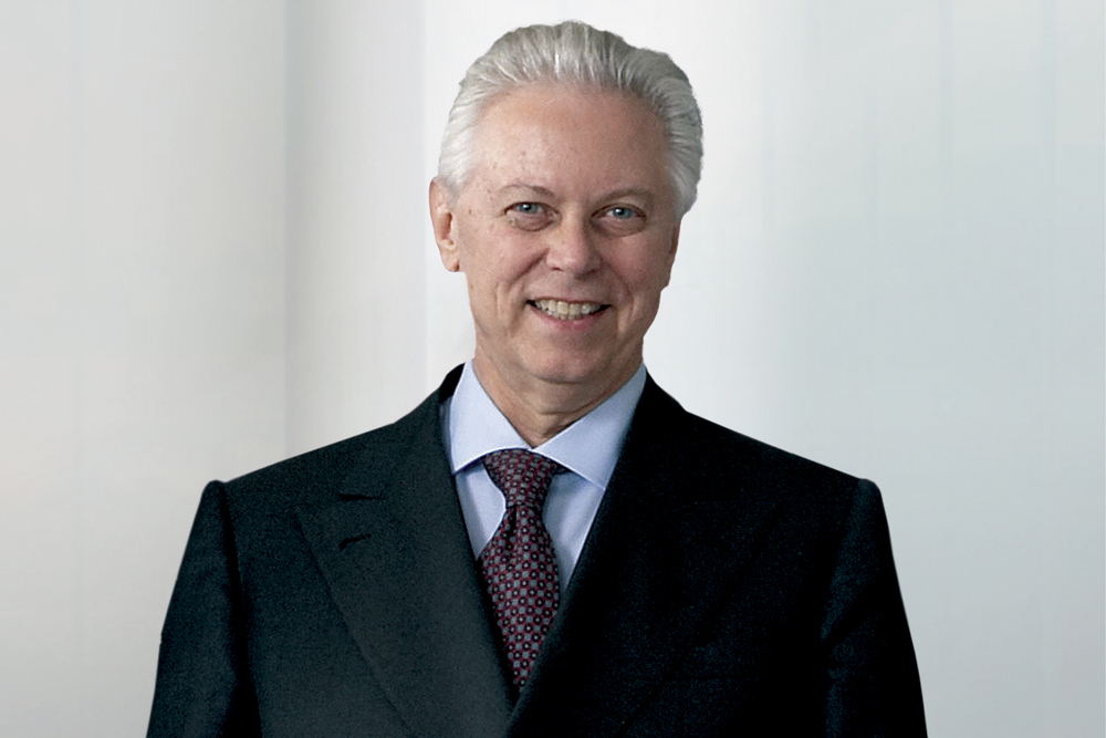 Stefano Pessina portrait against a blue background